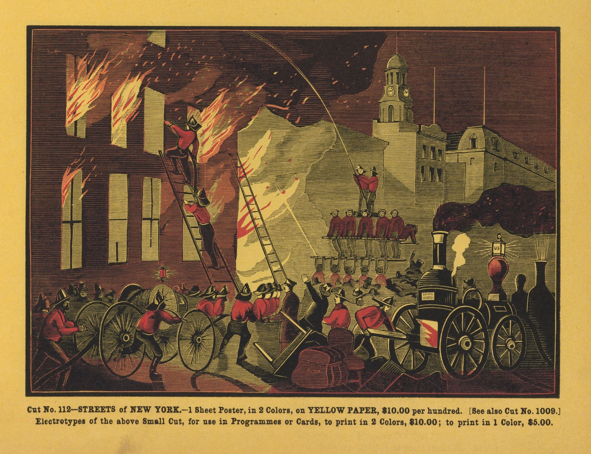 "Streets of New York" illustration/advertisement. From Ledger Job Printing Establishment, Philadelphia. From Specimens of theatrical cuts: being fac-similes, in miniature, of poster cuts: comprising colored and plain designs, suitable for theatrical, variety and circus business, 1869. TS 240.12.1.69 (A), Harvard Theatre Collection, Houghton Library, Harvard University